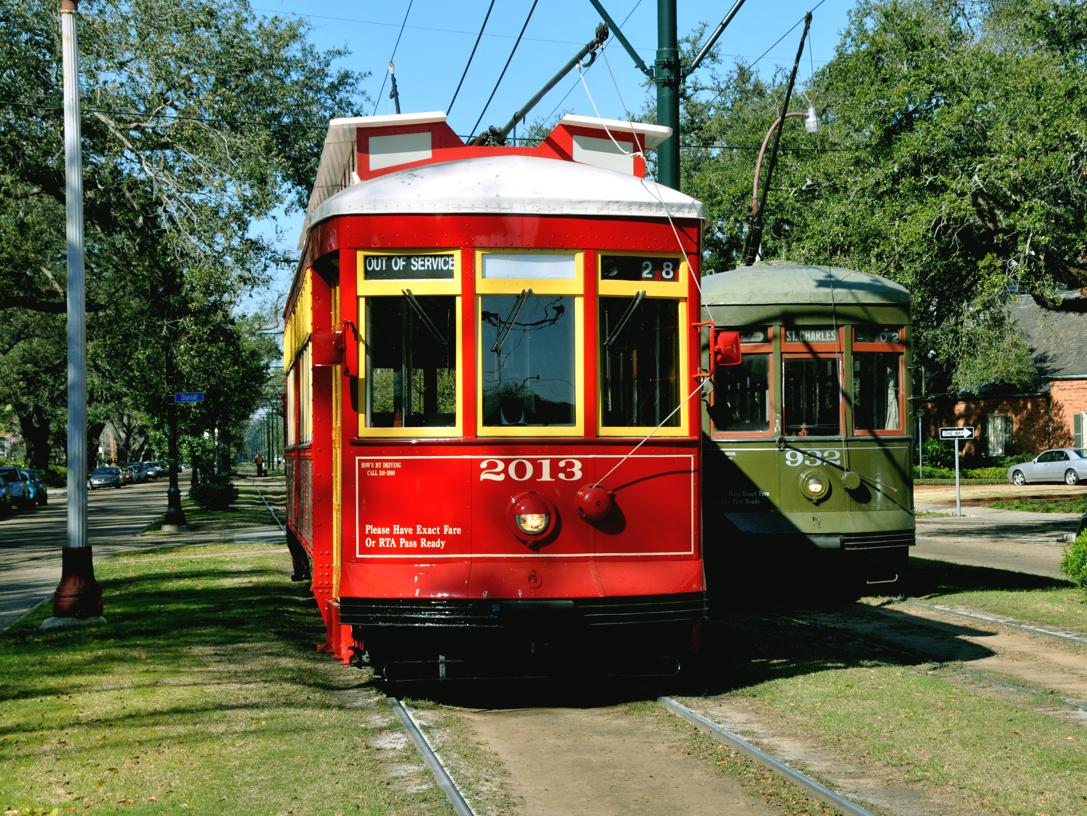 Red and green streetcars, St. Charles Avenue, New Orleans